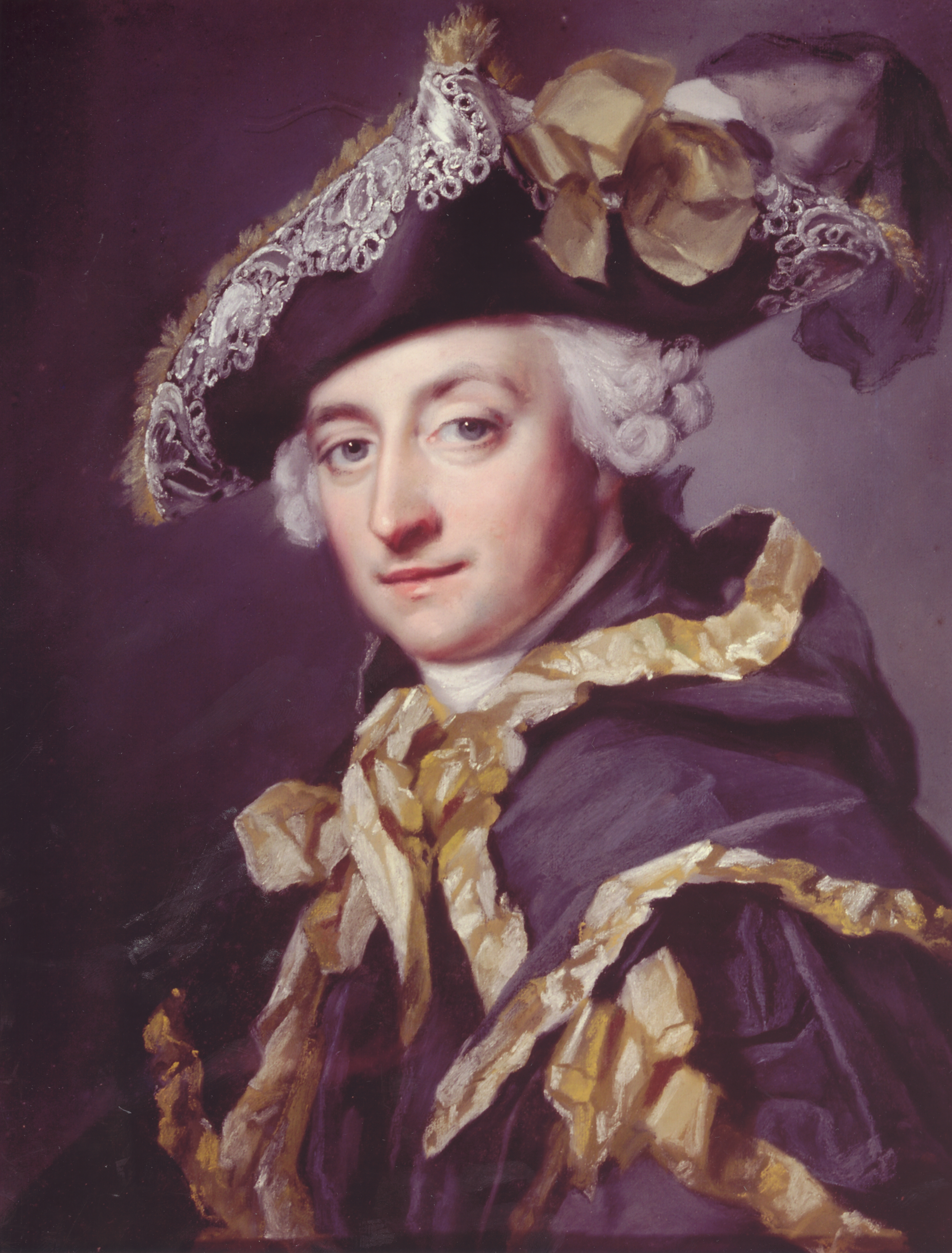 Josiah Child, son of Richard Child, 1st Earl Tylney (1680-1750)